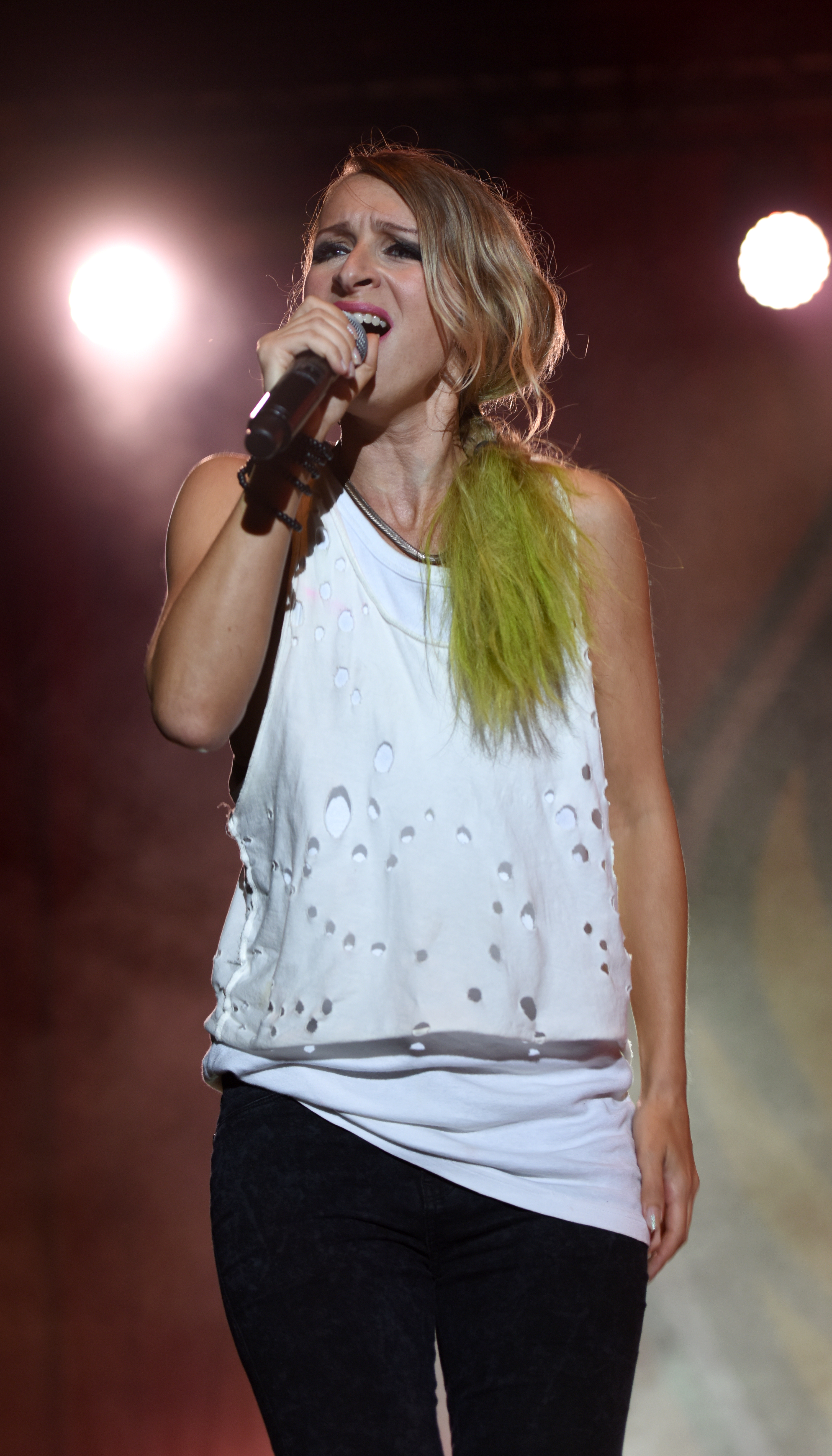 Guano Apes at the Open Flair festival in Eschwege, Germany, 2015.